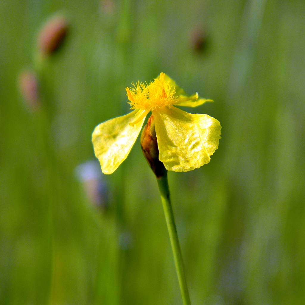 Xyris difformis Juno Dunes Natural Area, Palm Beach County, Florida 03June2010